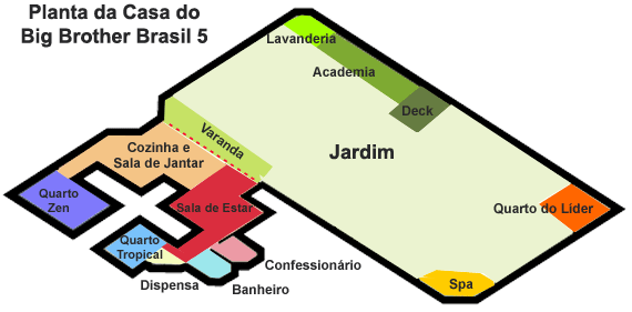 Plan of Big Brother 5 (Brazil) House. Author: Ikescs.